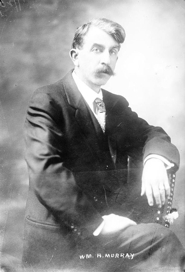 Bain News Service,, publisher. William H. Murray [no date recorded on caption card] 1 negative : glass ; 5 x 7 in. or smaller. Notes: Title from unverified data provided by the Bain News Service on the negatives or caption cards. Forms part of: George Grantham Bain Collection (Library of Congress). Format: Glass negatives. Repository: Library of Congress, Prints and Photographs Division, Washington, D.C. 20540 USA, General information about the Bain Collection is available at Persistent URL: Call Number: LC-B2- 2775-2